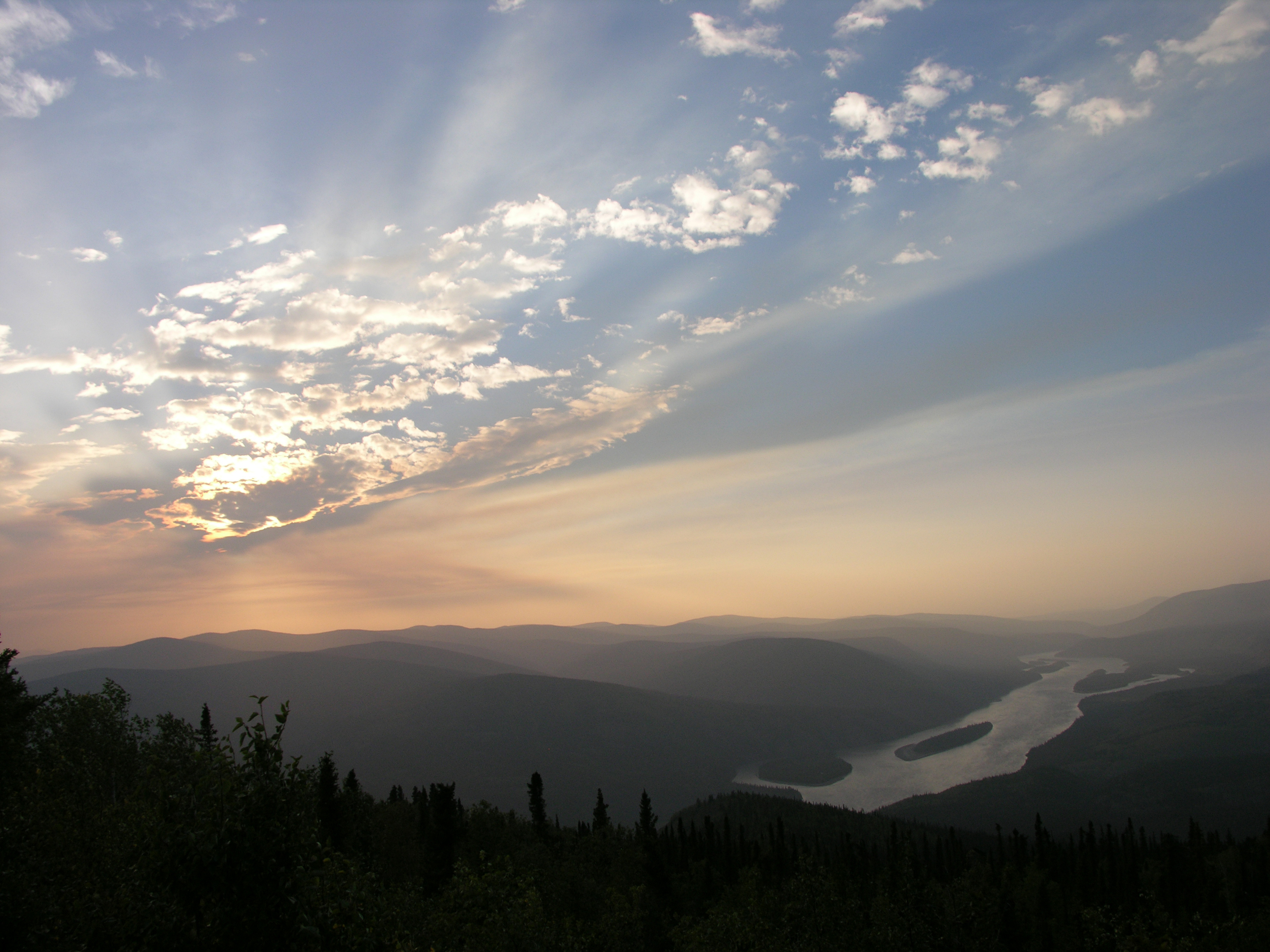 A photograph of Yukon River from Midnight Dome next to Dawson City, Yukon.